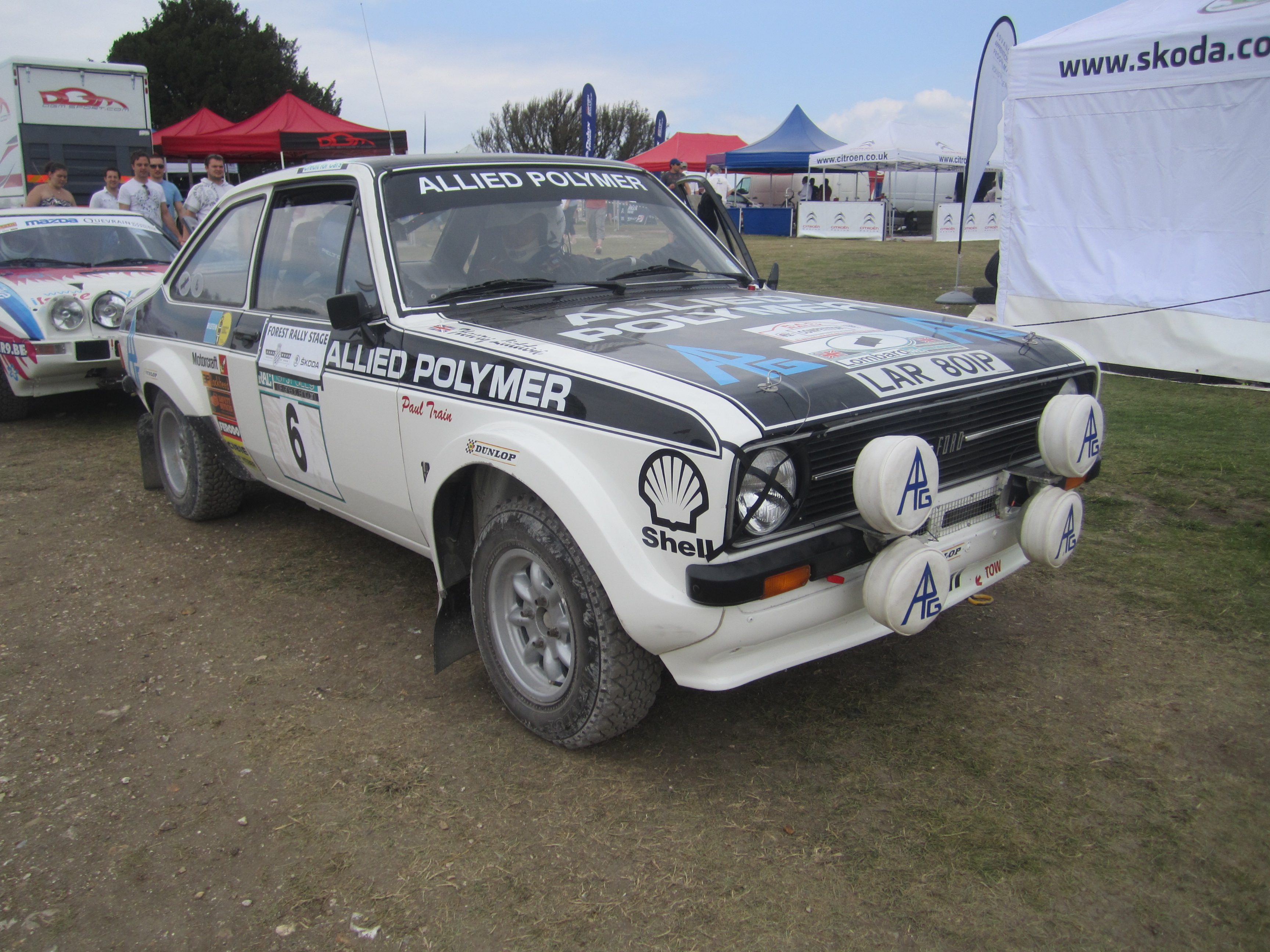 Built in England from 1974-80. Engine; 1800 DOHC Cosworth BDA 4 cyl Taken at the Goodwood Festival of Speed England 2011- Forest Rally Stage Contender